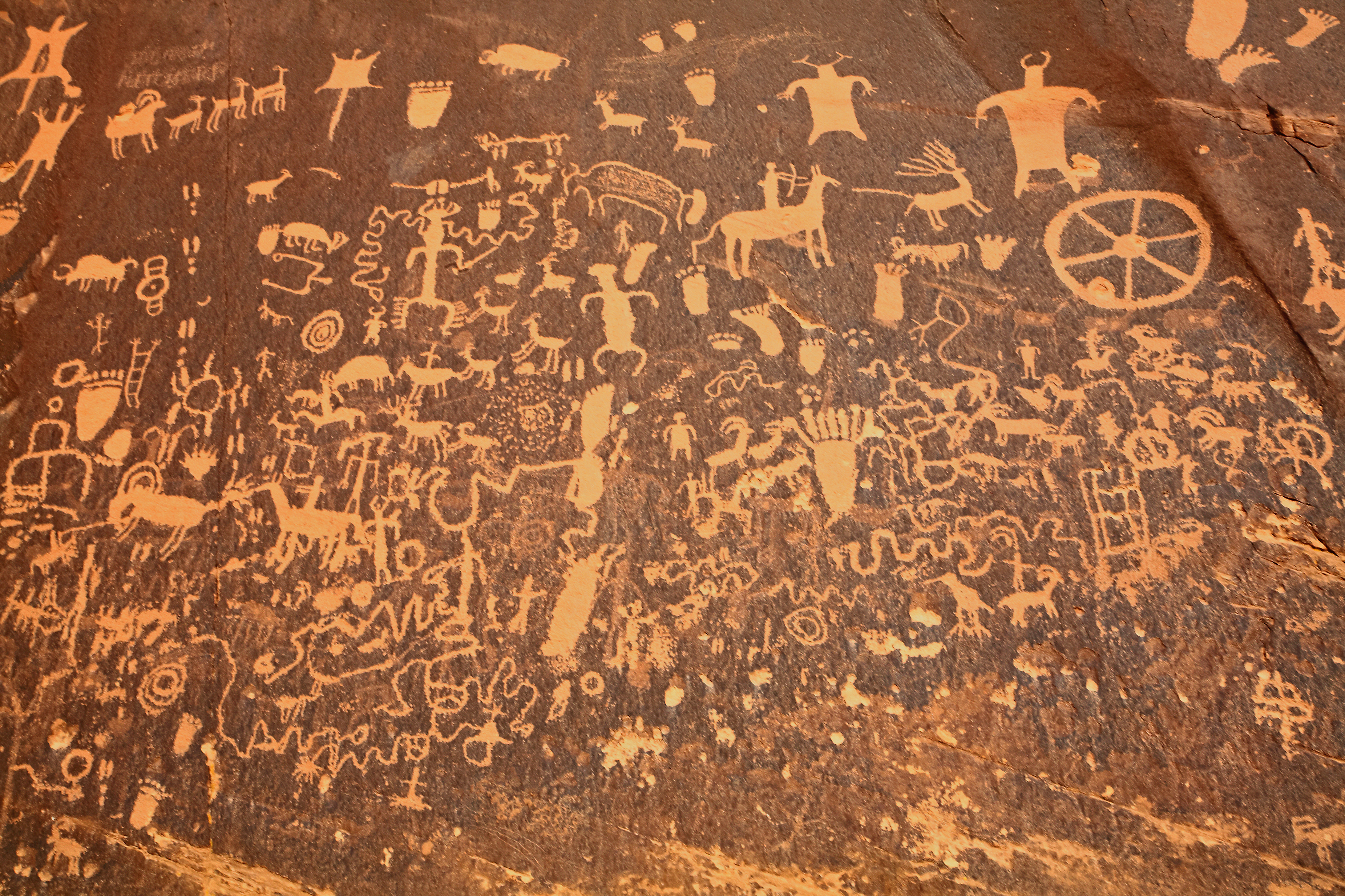 Large View A National Historic Site near the needles area of Canyonlands NP in SE Utah.